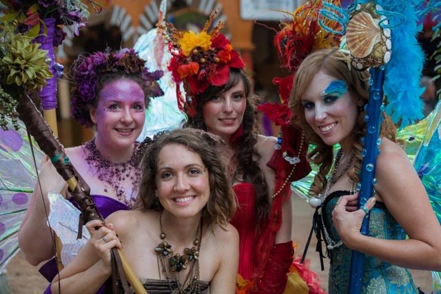 I took this photo at the 2012 Texas Renaissance Festival in Todd's Mission, TX near Houston in October 2012. This was the 2nd weekend of the TRF and it featured a fairy theme, The TRF is huge - you really need two days to take it in - there are stage acts, performers, jousts, belly and Brazilian dancers, chain mail models, and pirates everywhere you look - but the best part for me is just walking around people watching - it is incredible. There are so many people in elaborate costumes that my neck hurt from constantly looking in all directions - and they didn't mind me shooting them. What a blast - this is something I'm really looking forward too each year.